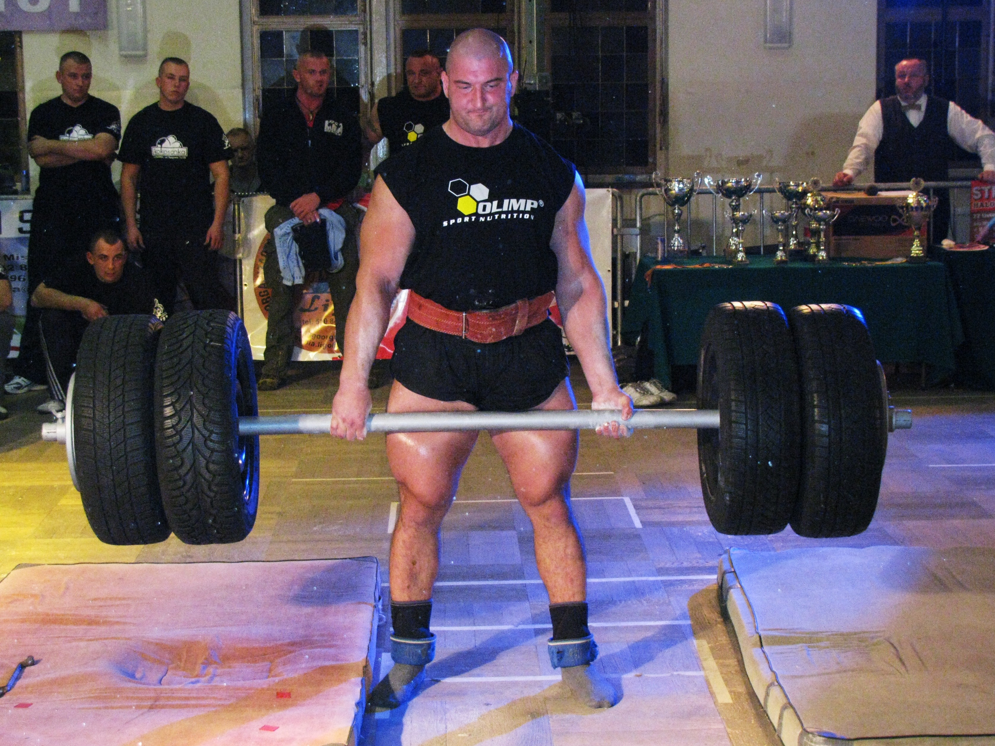 Slawomir Orzel - a strength athlete from Poland at Dead Lift.